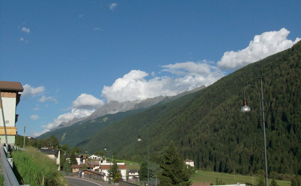 Vezza d'Oglio, Val Camonica